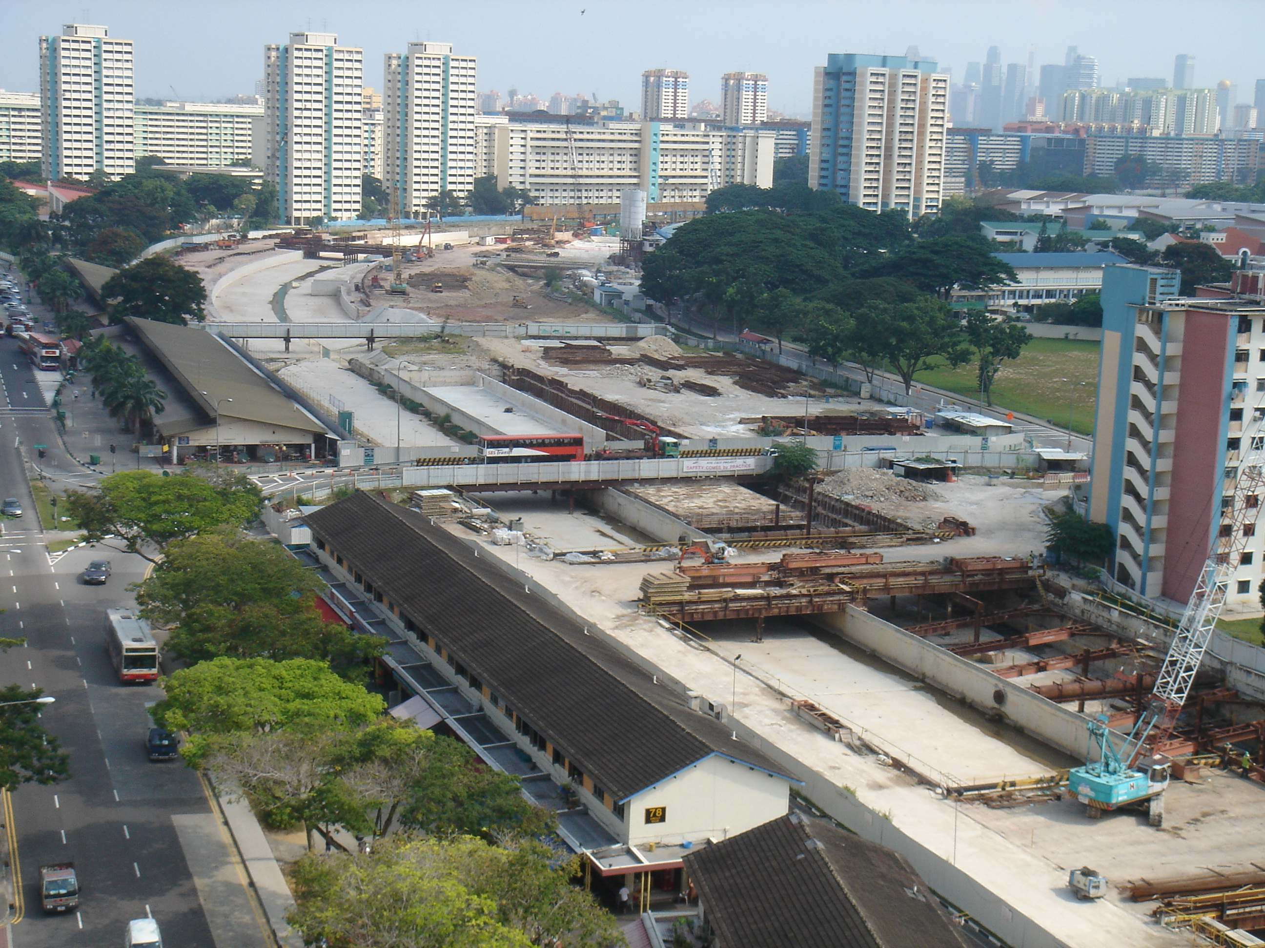 Kallang-Paya Lebar Expressway over Circuit Road, MacPherson, Singapore.